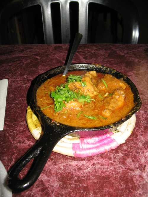 Nicely spiced, went well with the naan. Also consumed during this meal: palak paneer, meat and vegetable samosas, almond kulfi (on a long stick suitable for two). February 27, 2009